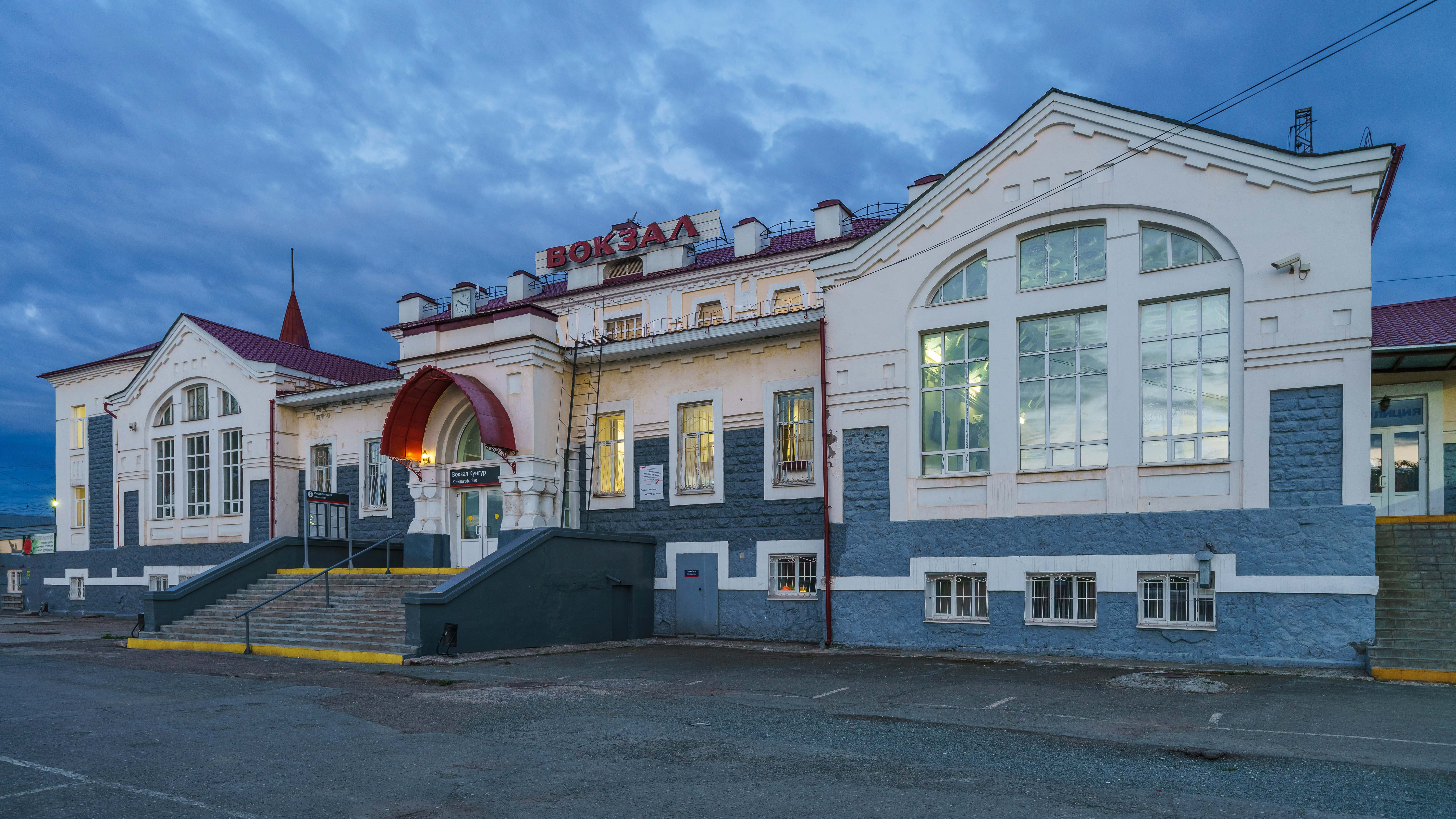 Railway station in Kungur, Perm Krai, Russia